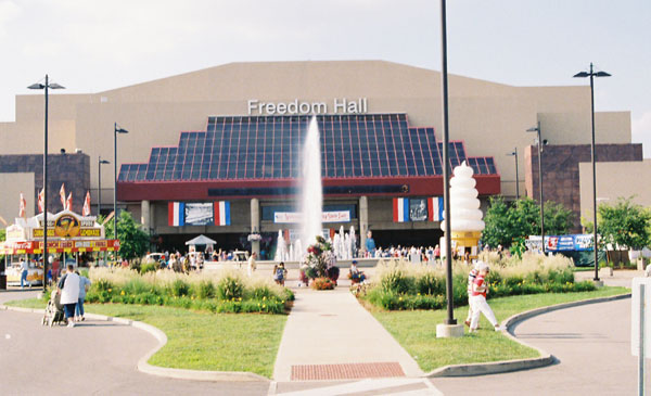 I snapped this photo of Freedom Hall during the Kentucky State Fair. Category:Images of Louisville